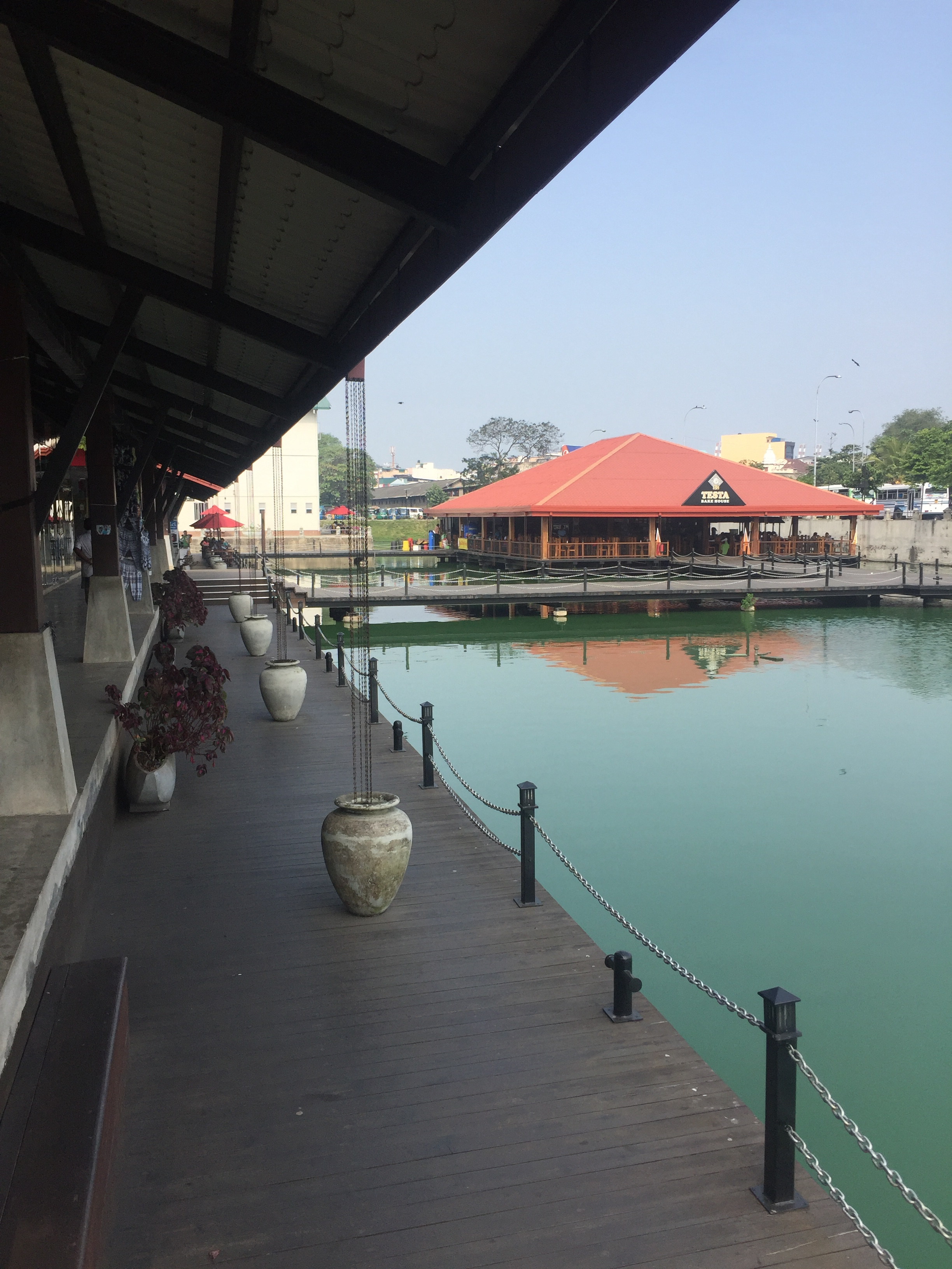 Lakeside at Pettah Floating Market in Colombo